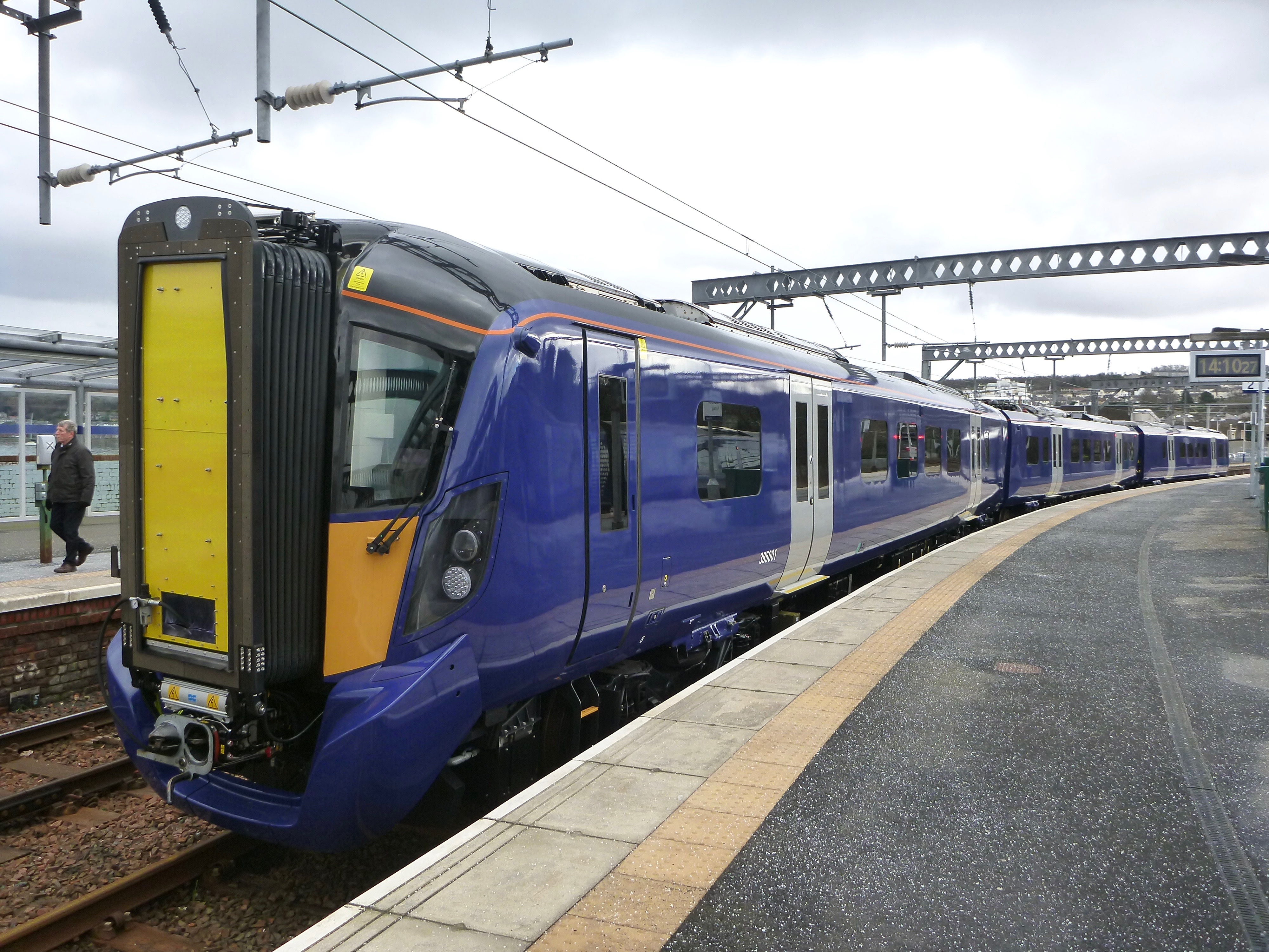 British Rail Class 385 at Gourock railway station during pre-service test period.